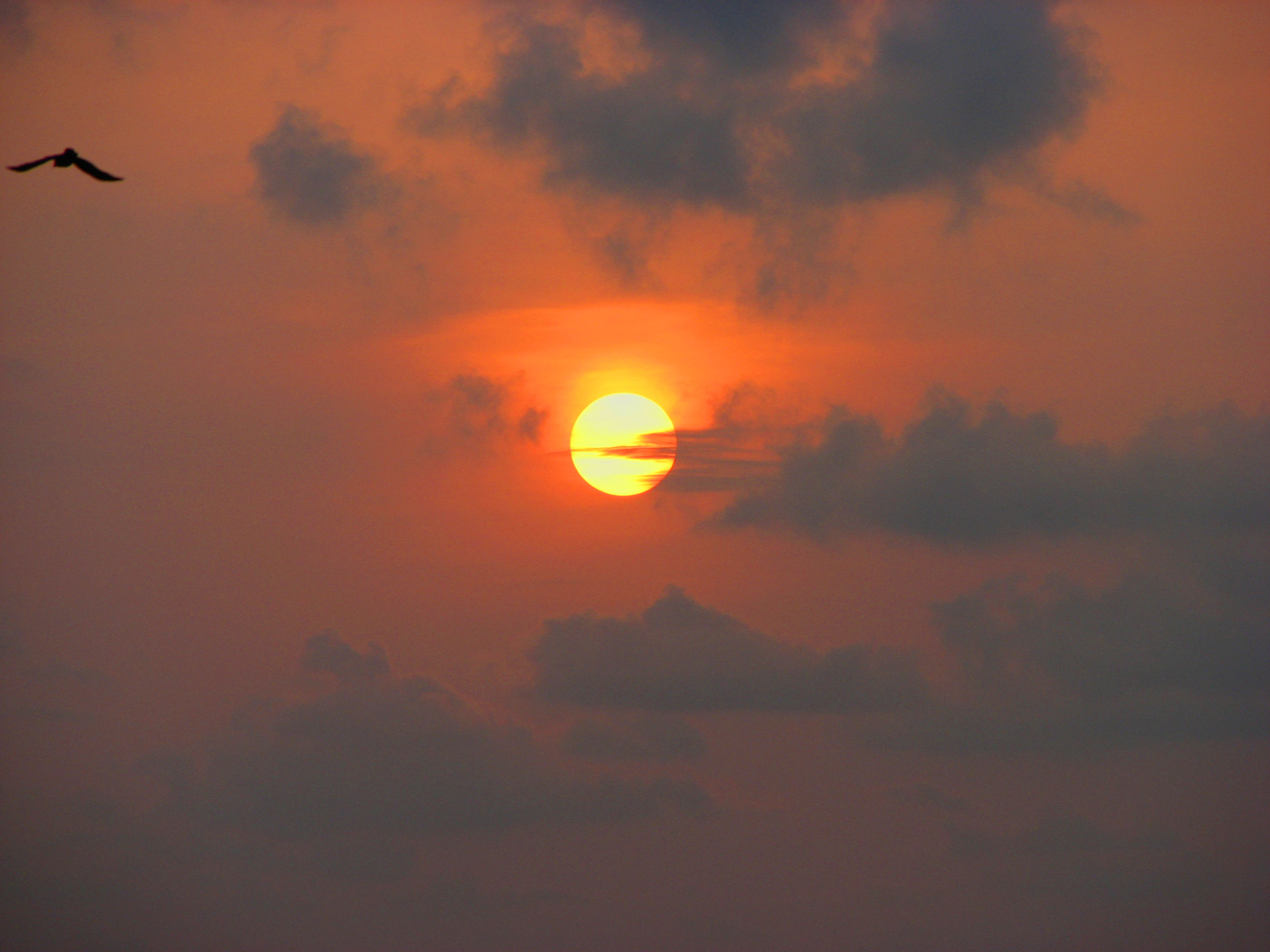 Sunset taken from Bharathappuzha, Kuttippuram, Kerala.